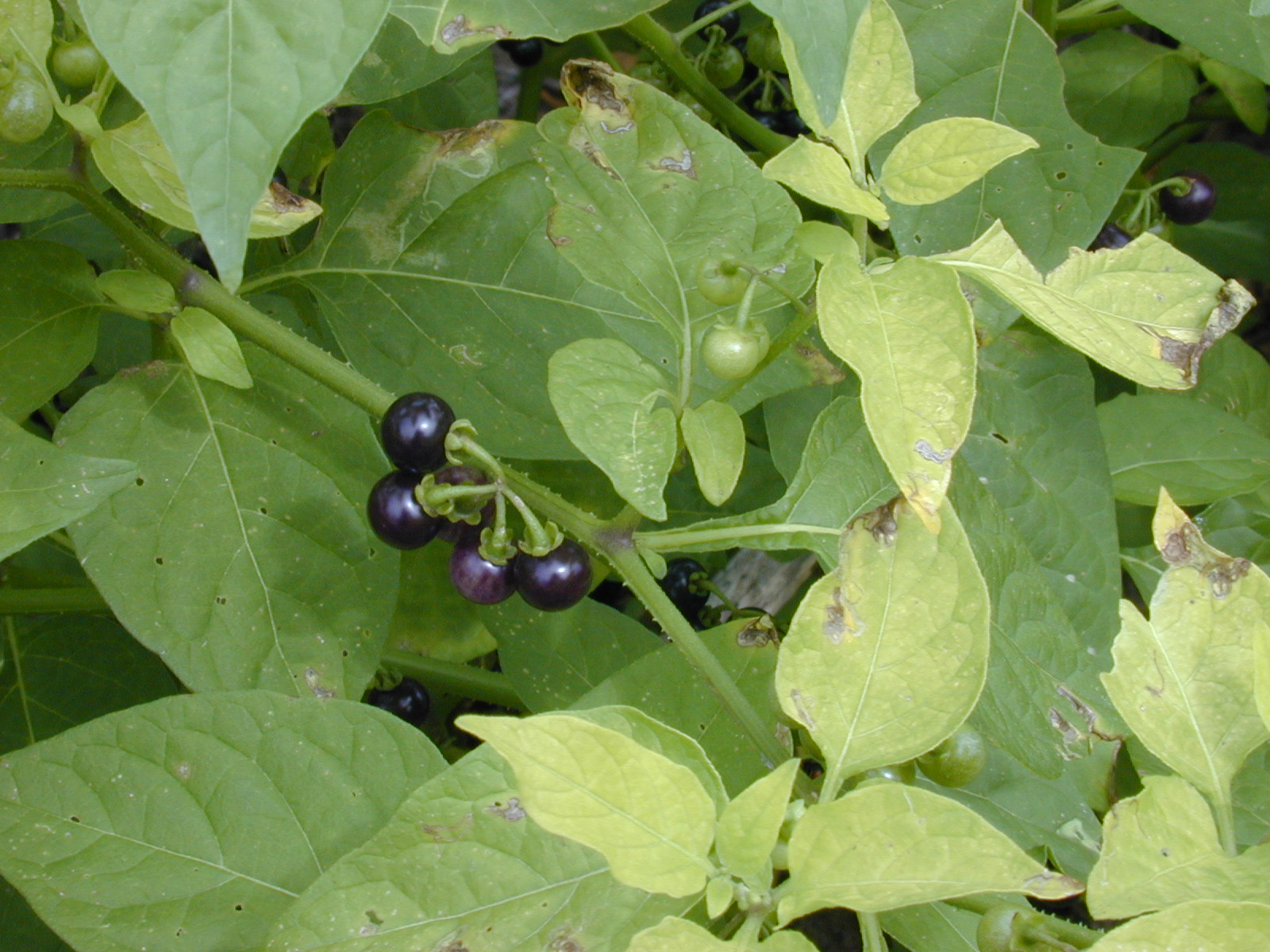 Solanum americanum (leaves and fruits). Location: Kure Atoll, Inland